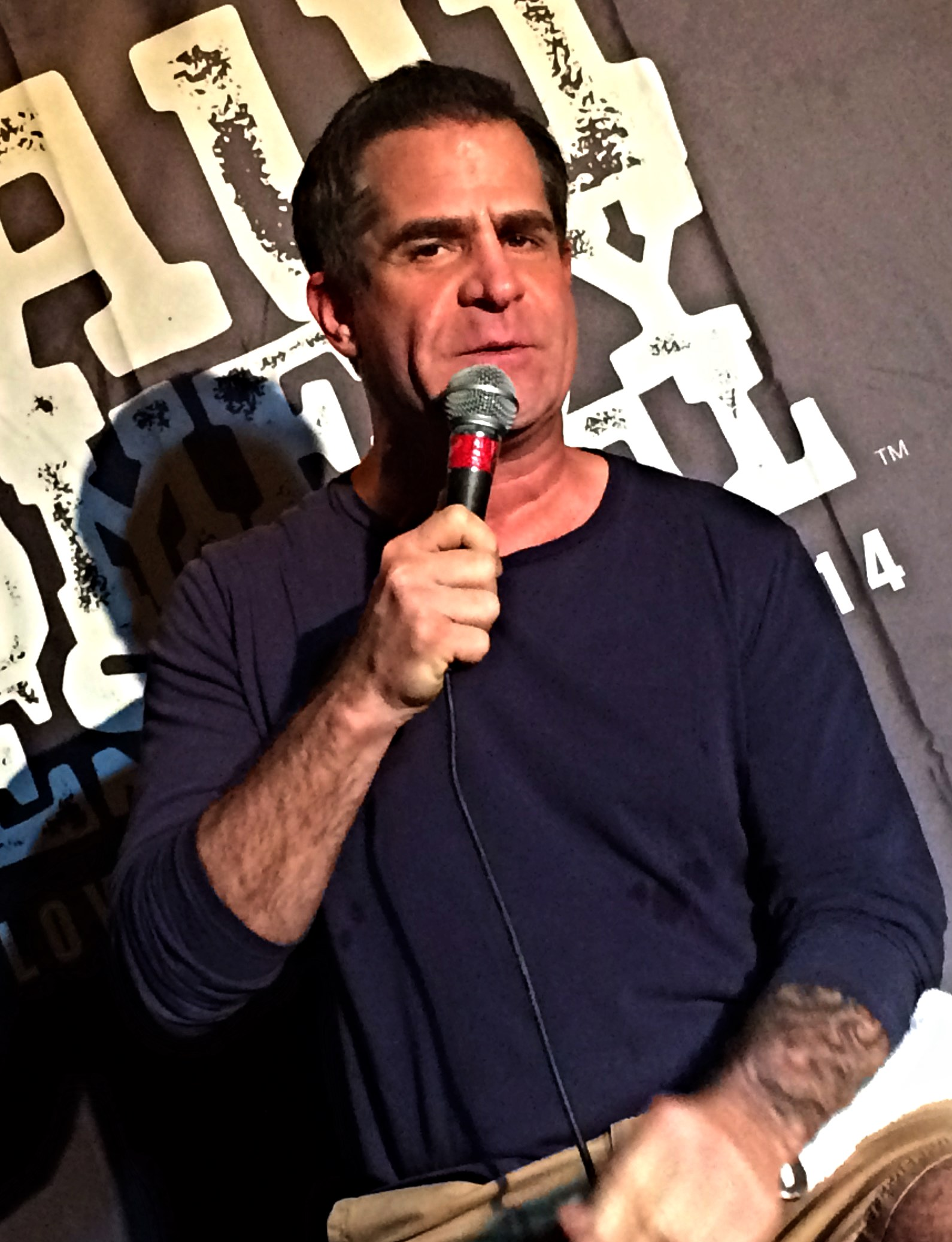 Comedian Todd Glass at the 2014 Maui Comedy Festival